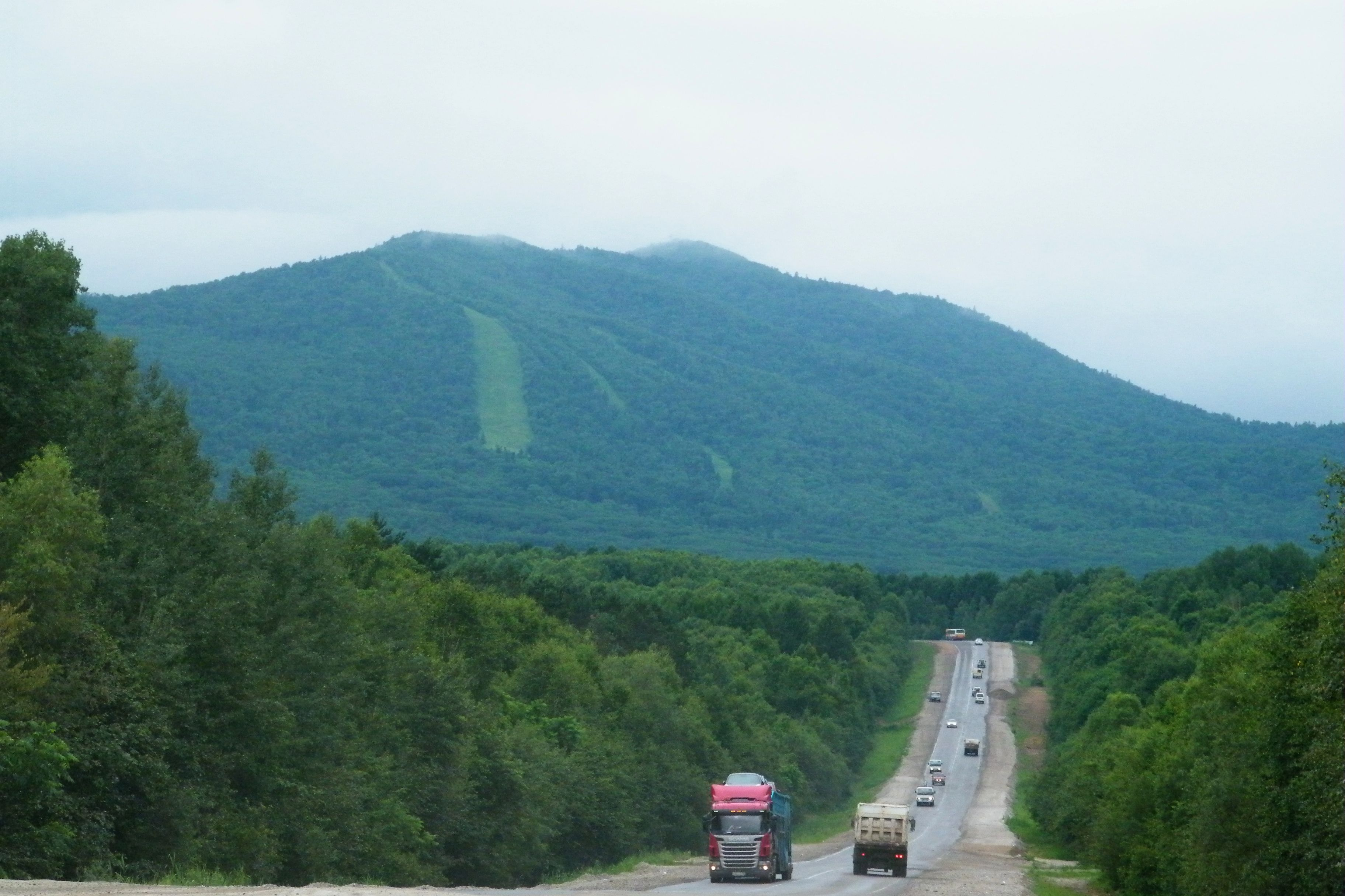 Дорога Уссури горнолыжная трасса под Хабаровском